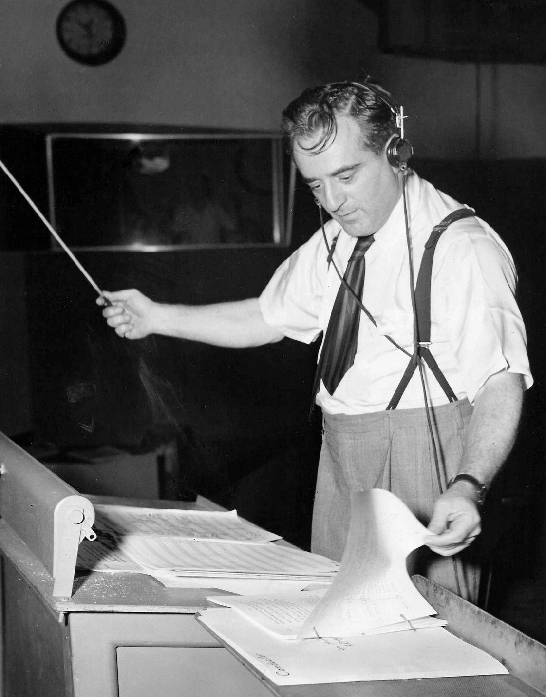 Photo of Mark Warnow conducting for his radio program.